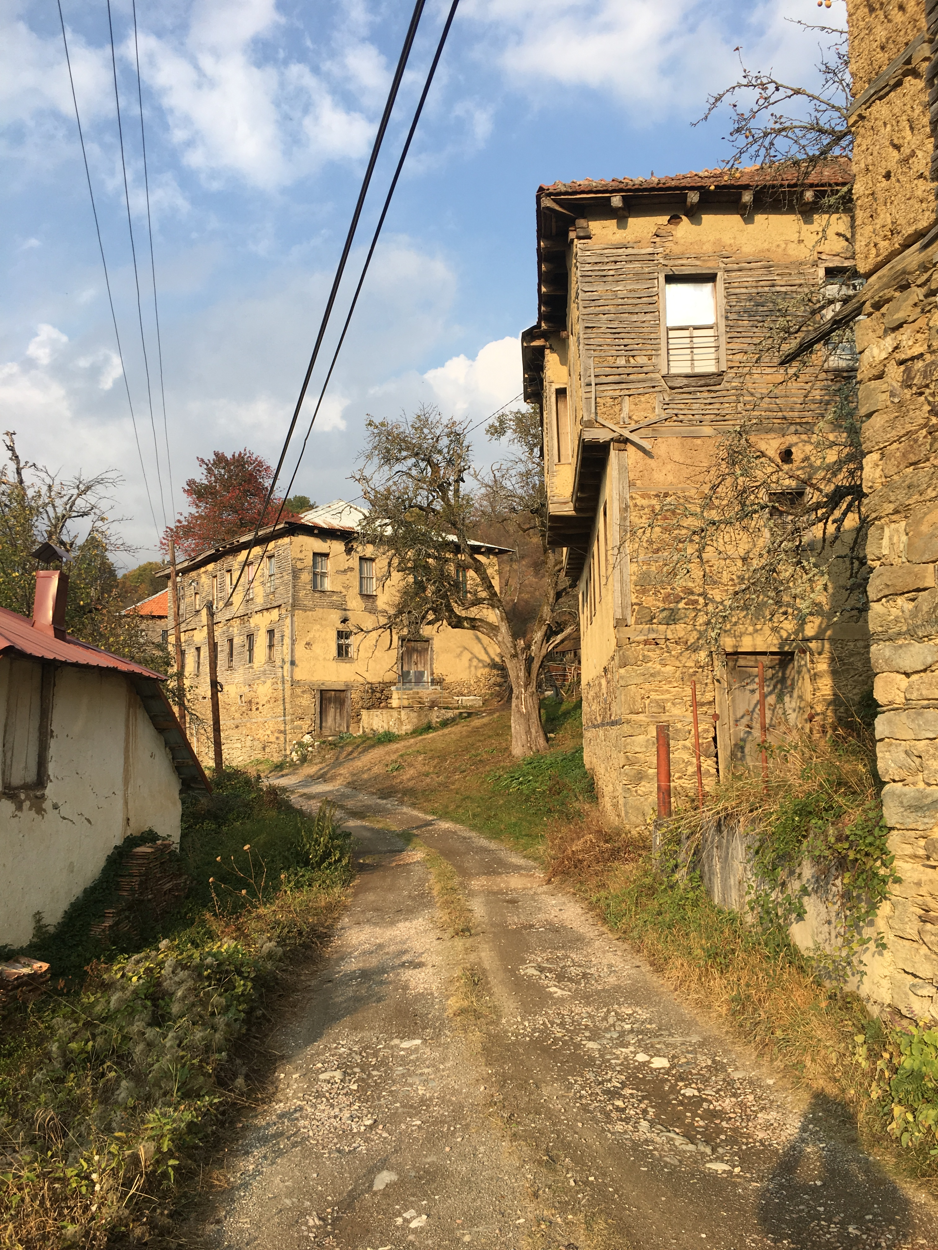 Wikiexpedition to Kopačka